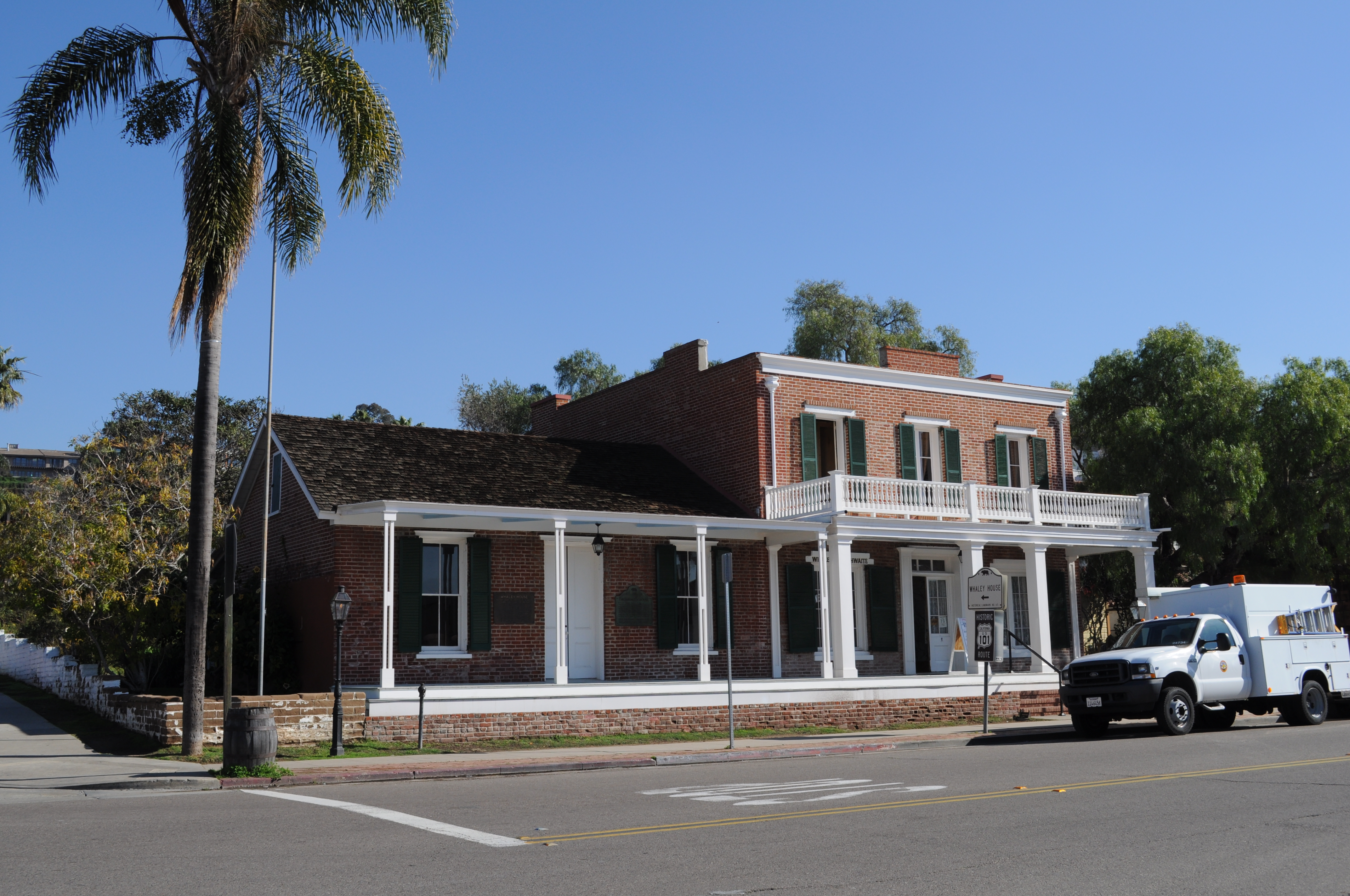 Whaley House Museum, Old Town, San Diego, California, USA, built 1856.